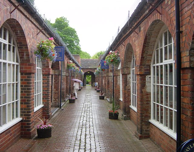 The Shambles, Bewdley. Once open-fronted butcher's shops these now form part of the museum behind the Guildhall housing demonstrations of clay pipe making, pewter work and brass foundry.